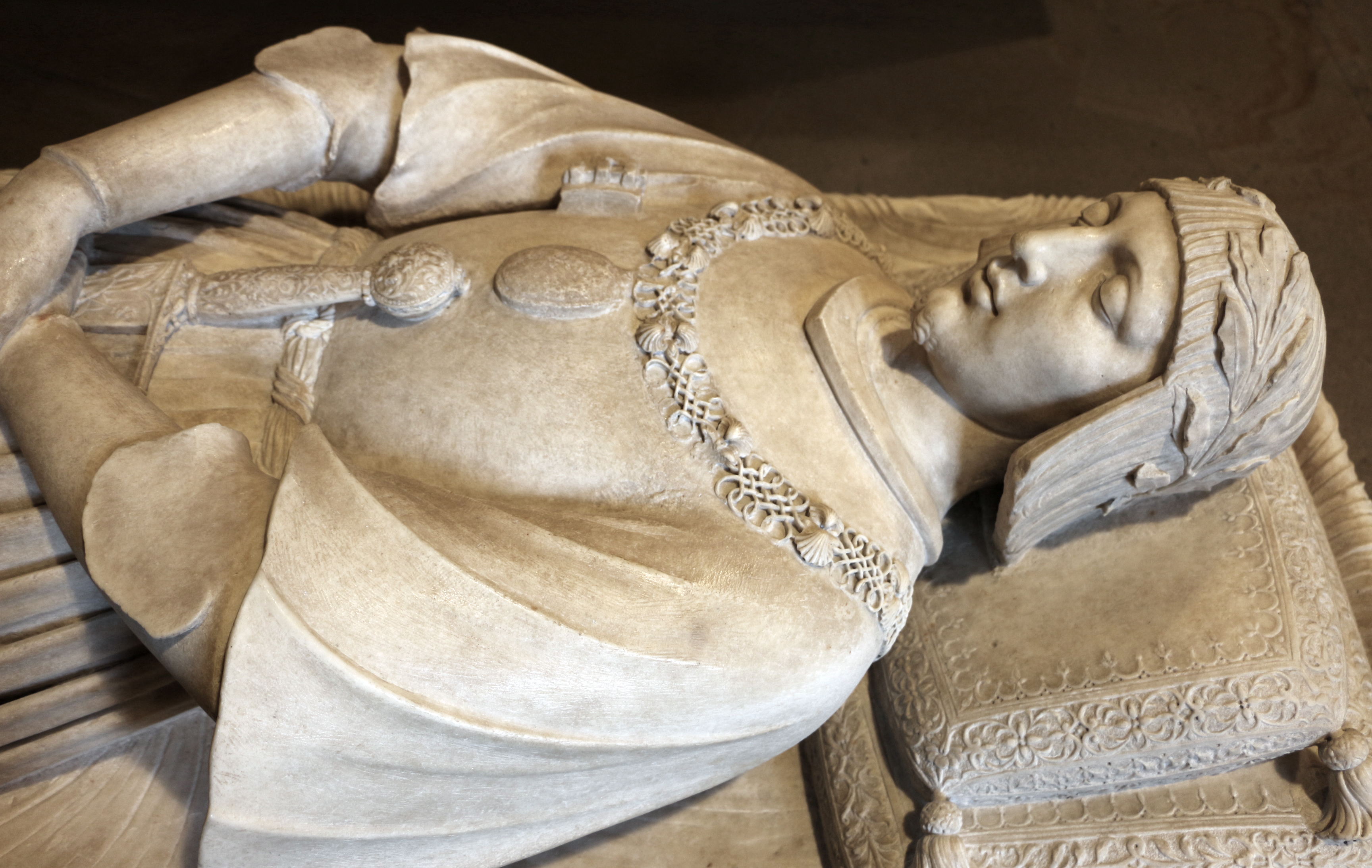 Museo d'arte antica (Milan) - 16th-century sculptures